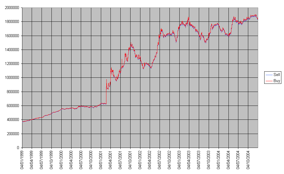 Graph of TL against the EUR from the start of the euro to the end of the turkish lira